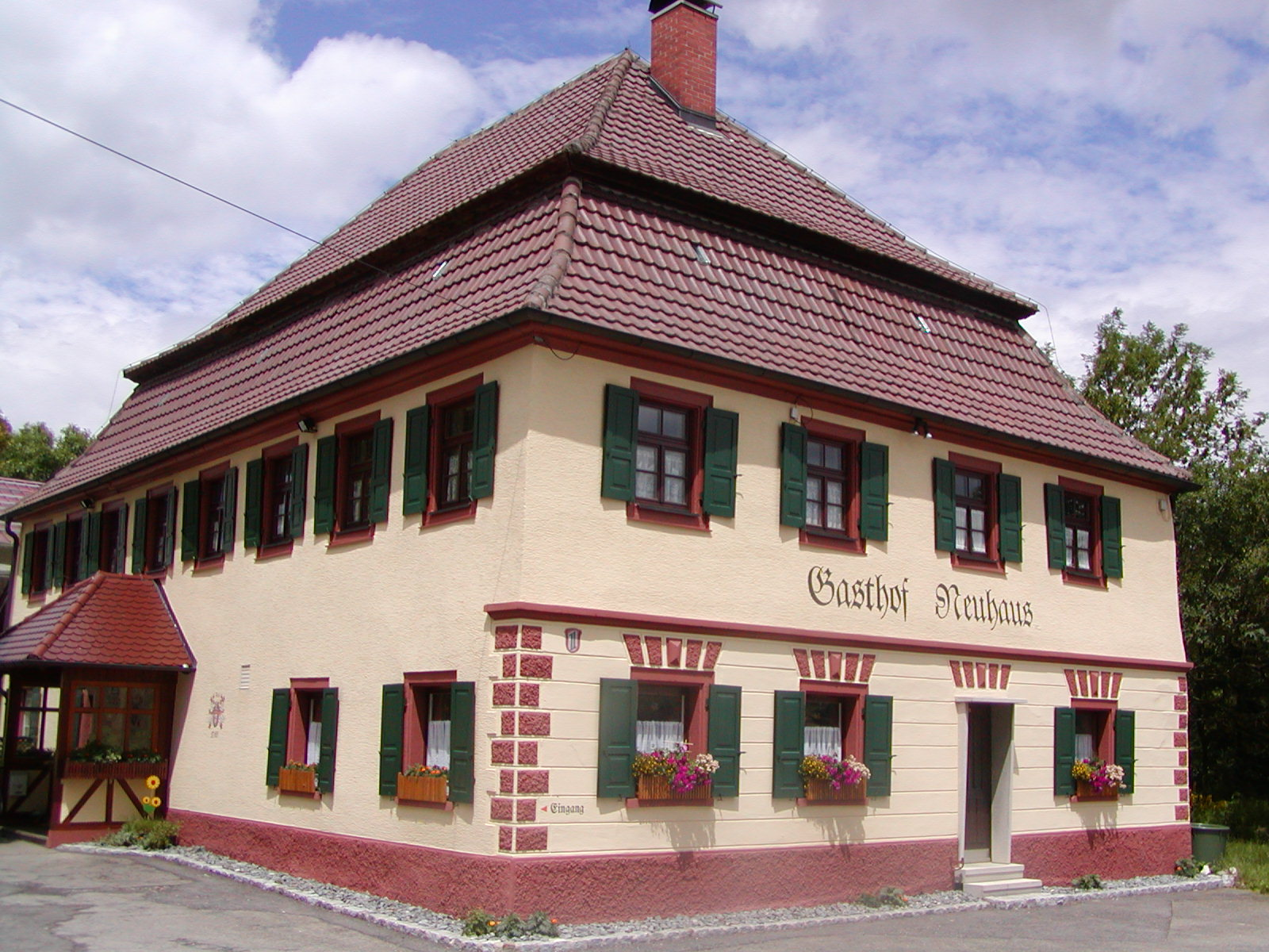 Konrad Albert Kochs parental home, the tavern "Neuhaus" in the community of Schörzingen